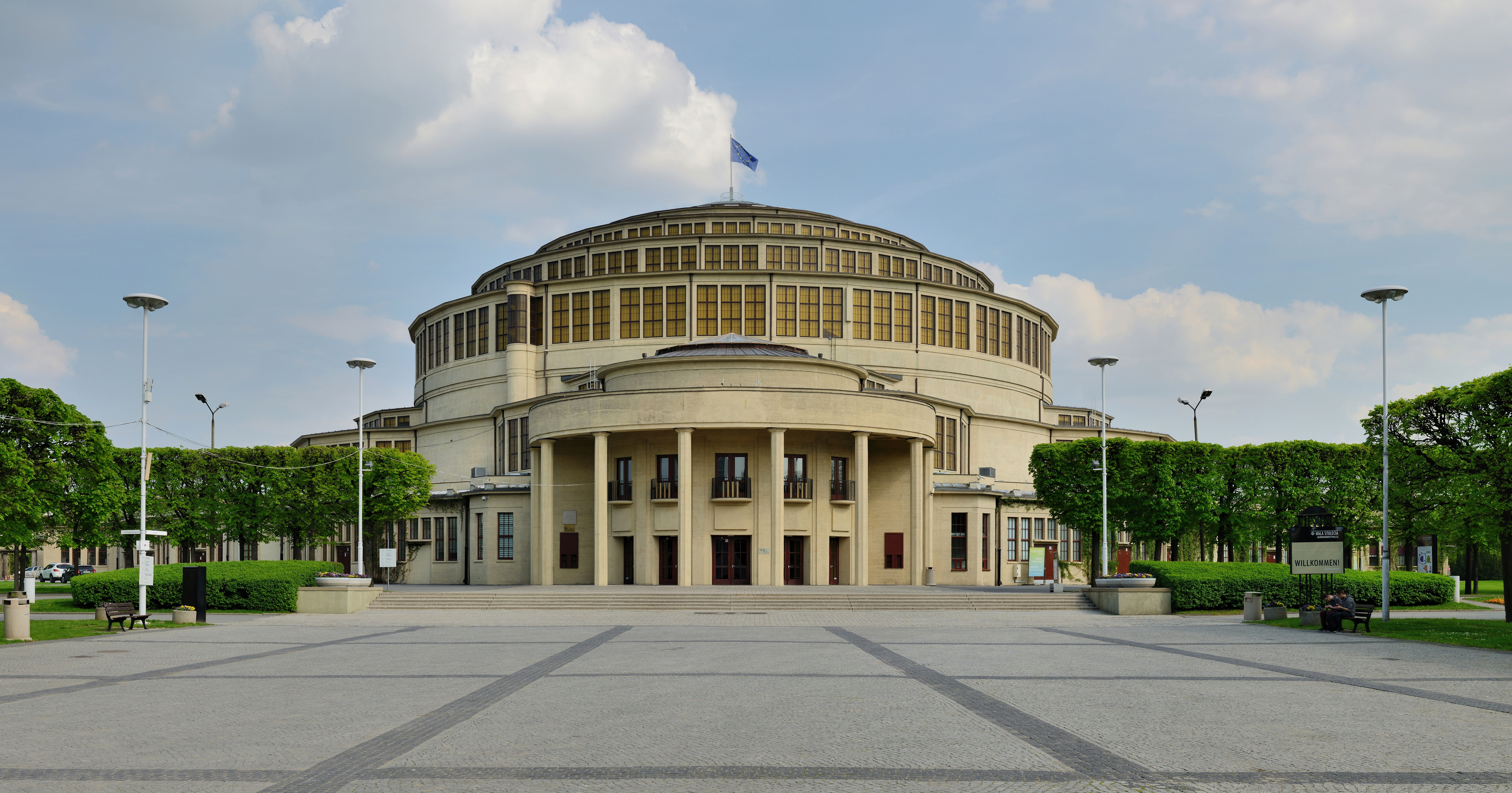 Centennial Hall in Wrocław, Poland